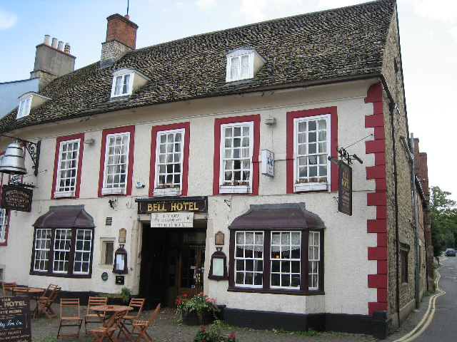 The Bell Hotel, Market Place, Faringdon, Vale of White Horse